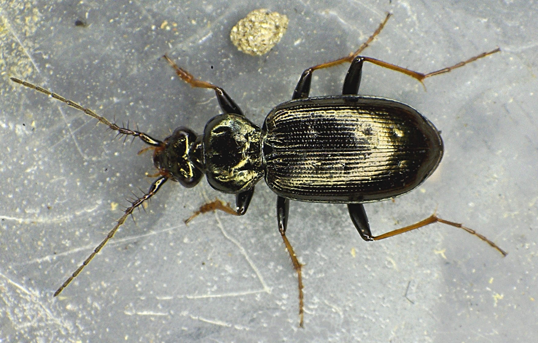 Male of Loricera pilicornis